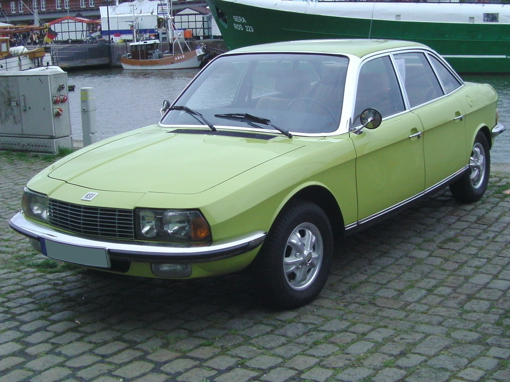 A NSU Ro 80, a car with a Wankel engine